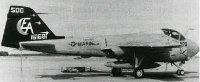 Picture of the last Gumman A-6E Intruder in service with the U.S. Marine Corps: BuNo 161681 was retired by Marine all-weather attack squadron VMA(AW)-332 Moonlighters in 1993.